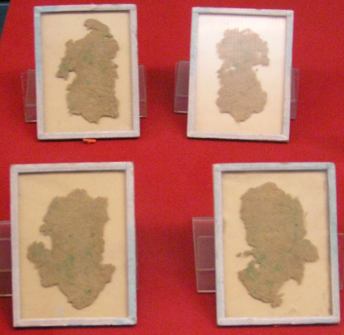 Early Chinese hemp fiber paper, used for wrapping not writing, on display at the Shaanxi history museum in Xi'An, China. Excavated from the Han Tomb of Wu Di (140-87 BC) at Baqiao, Xi'An. Photo by Yannick Trottier, 2007